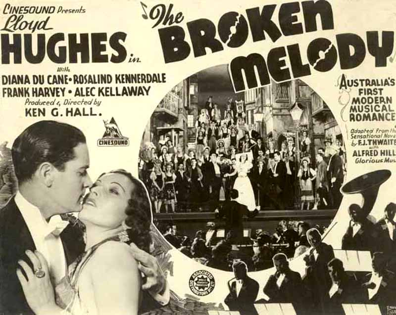 Theatrical poster for the Australian film "The Broken Melody"